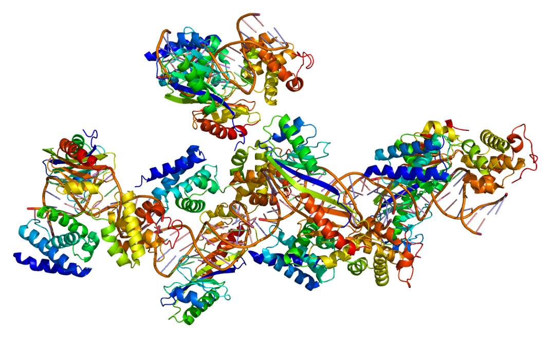 Structure of the TBP protein. Based on PyMOL rendering of PDB 1c9b.